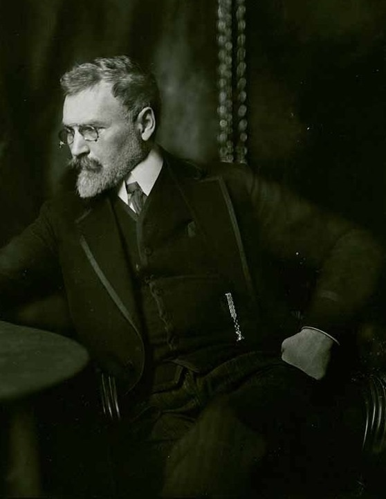 Leopold Schmutzler (cropped)